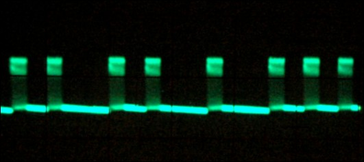 IR remote control signal, oscillator screen dump. Length of one burst: about 560µs. Related picture image:irmodh.jpg Creator: Ebuss (wsrp) See: Fernbedienung